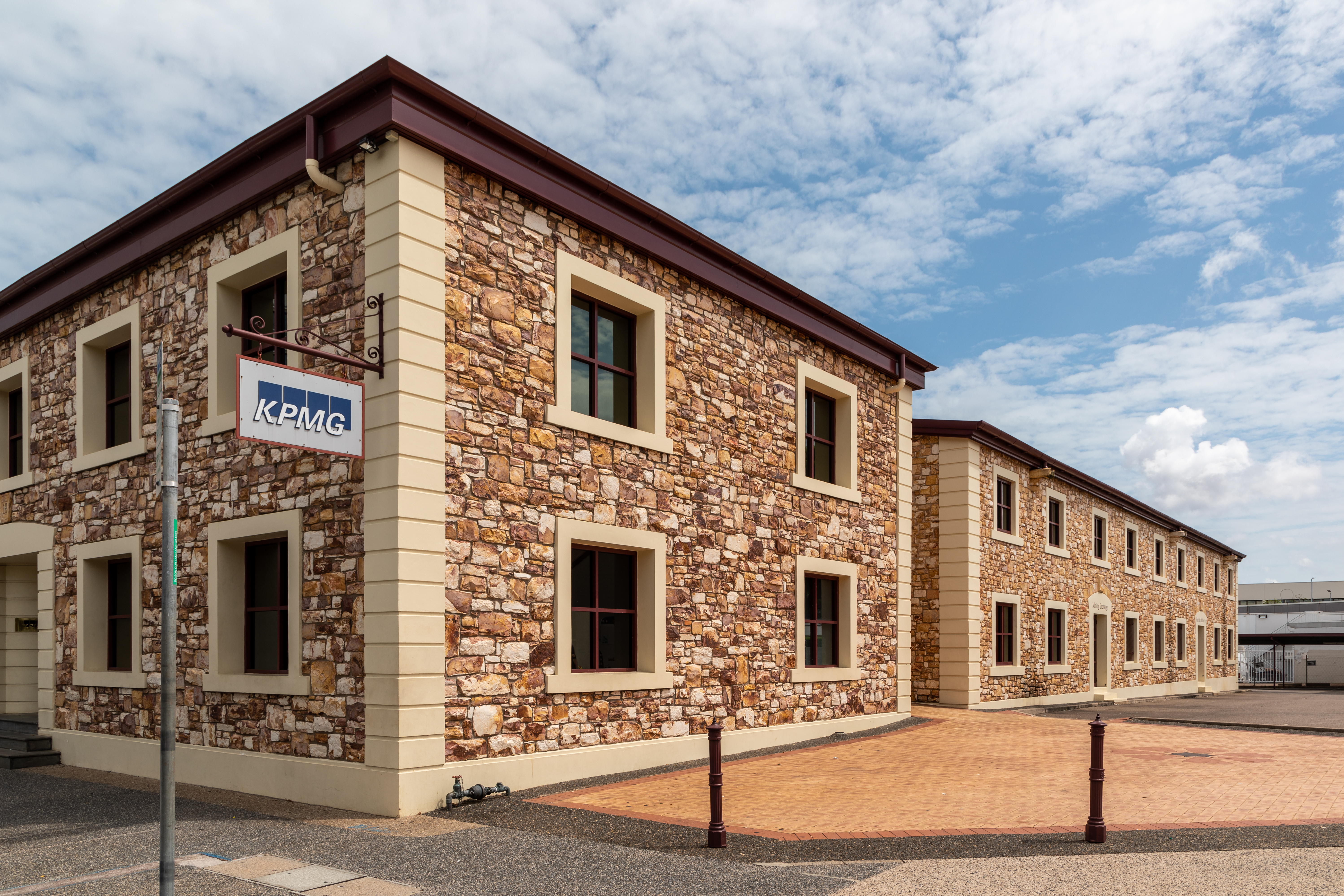 KPMG building, Darwin, Northern Territory, Australia